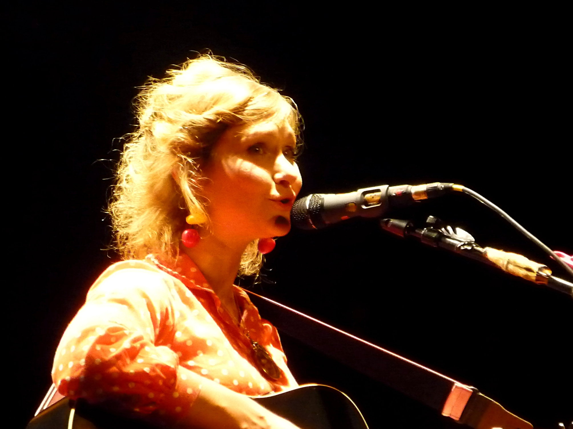 Singer GiedRé at Les Cuizines concert room, Chelles, France.